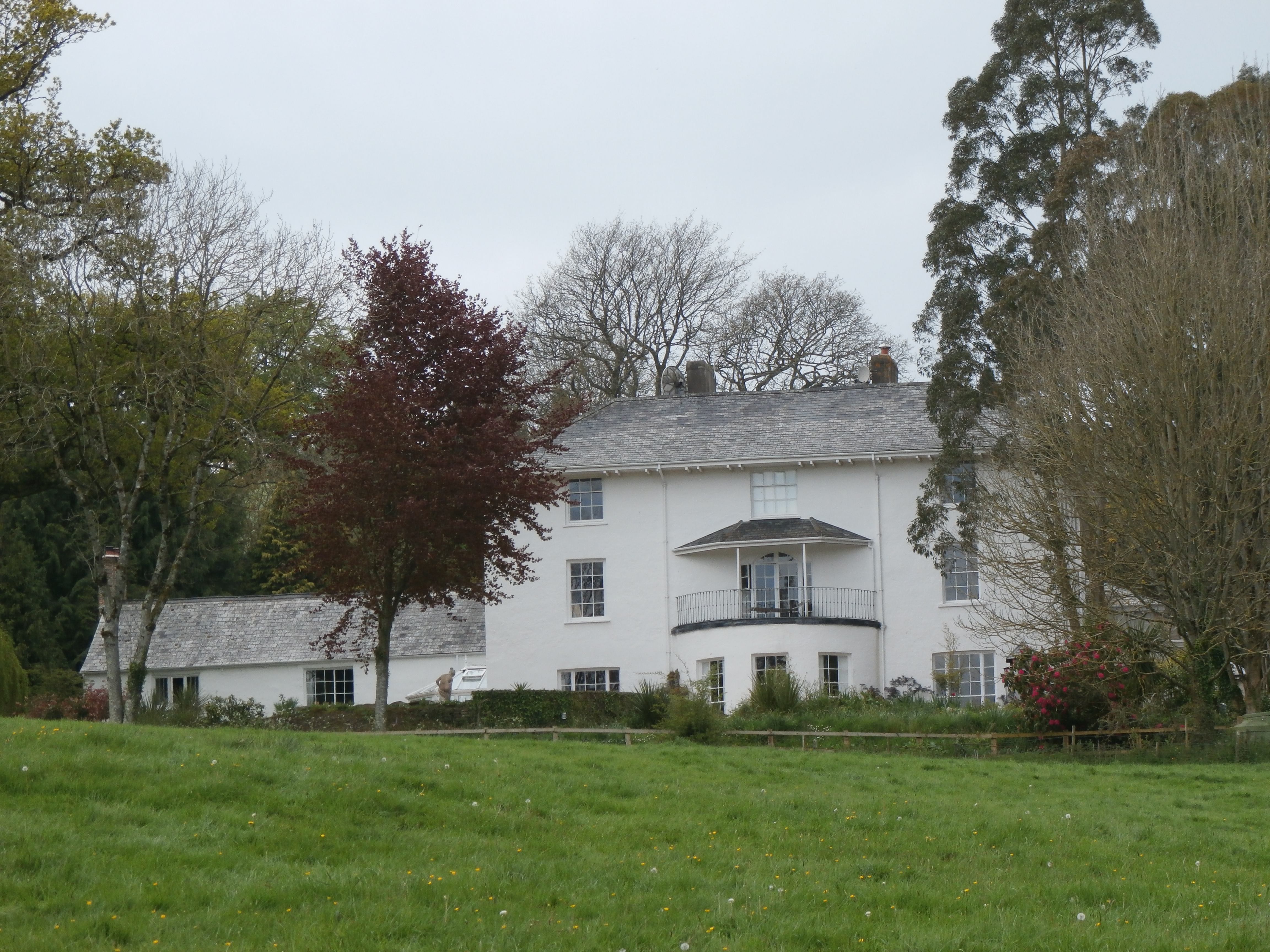 Corffe in the parish of Tawstock, North Devon